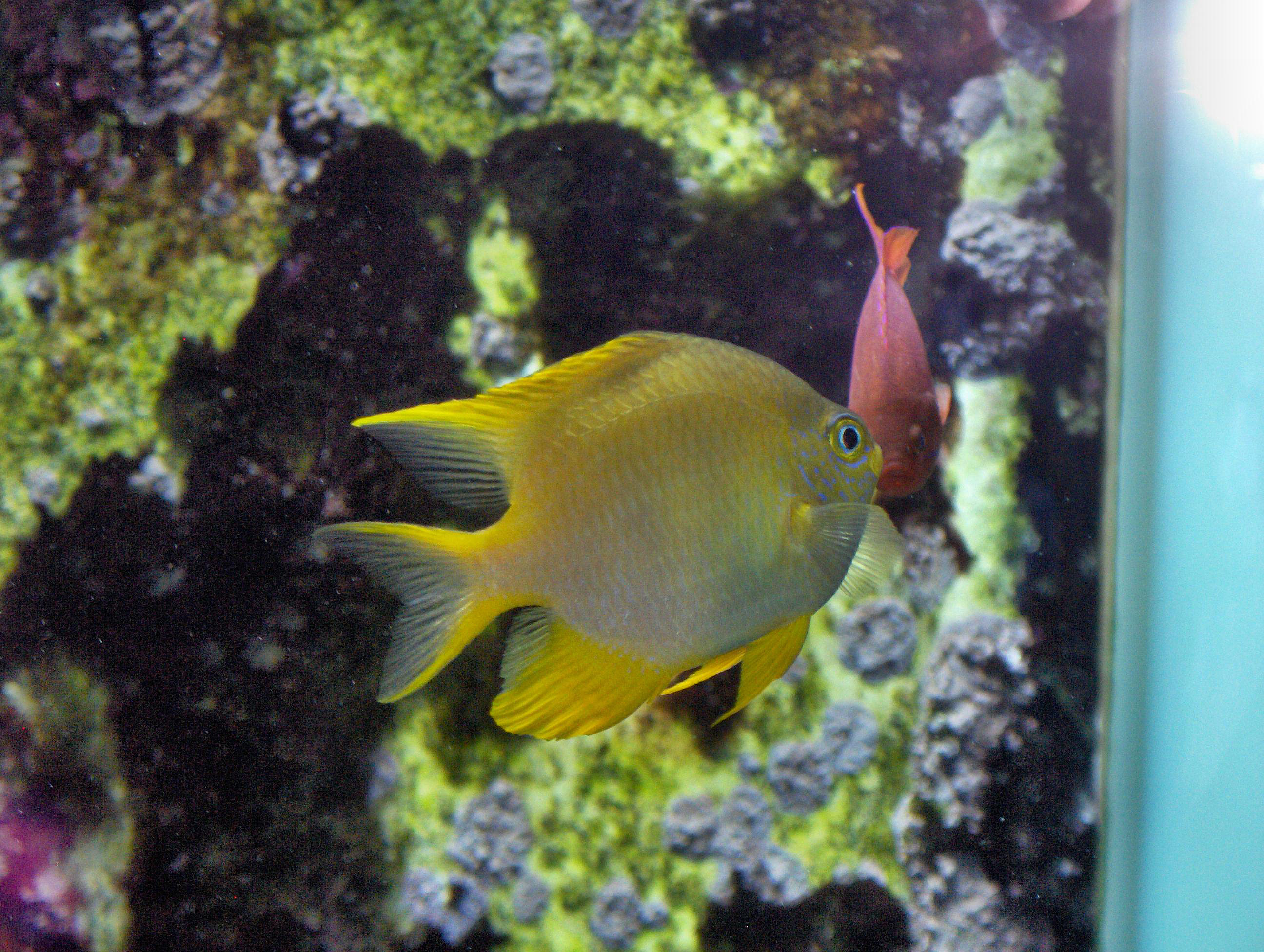 Golden damsel (Amblyglyphidodon aureus); Musée Océanographique de Monaco